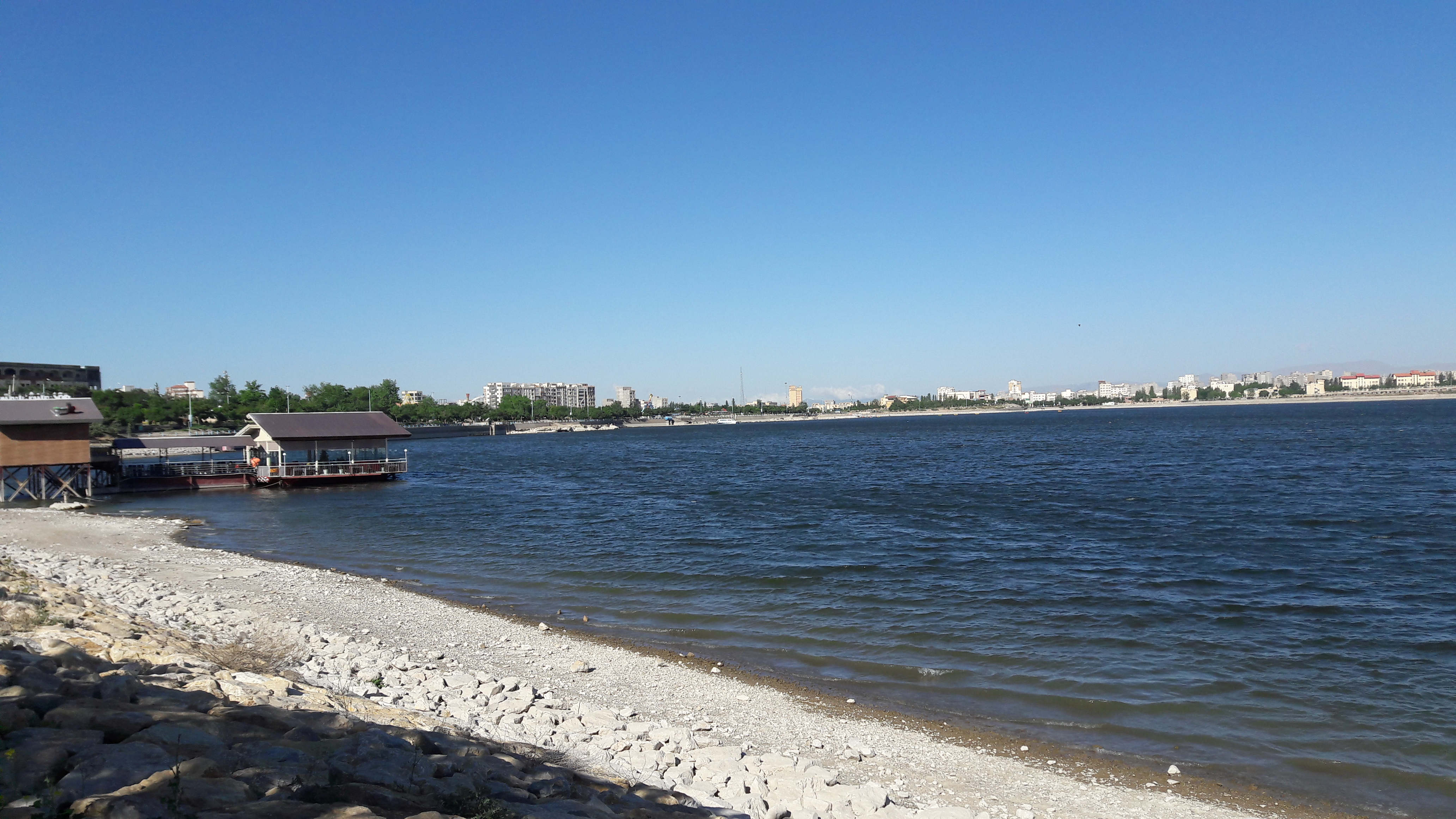 Photo